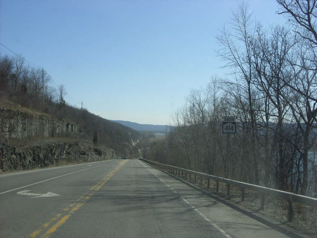 Southbound on New York State Route 414 in Hector, just south of New York State Route 79. To the right is Seneca Lake; straight ahead, NY 414 continues downhill to the base of the lake valley and Watkins Glen.